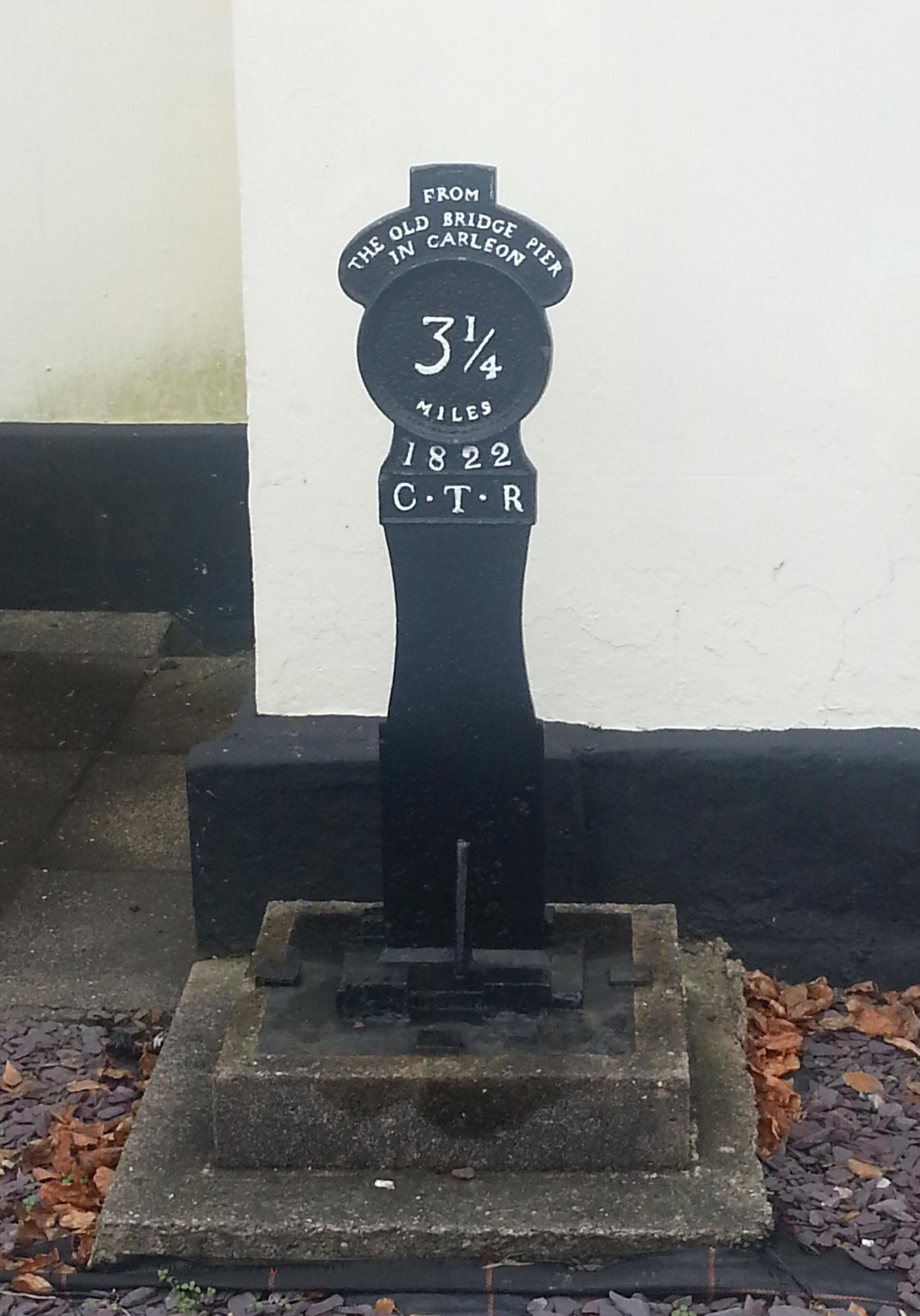 Milepost of the Caerleon Tramroad, now in downtown Caerleon.